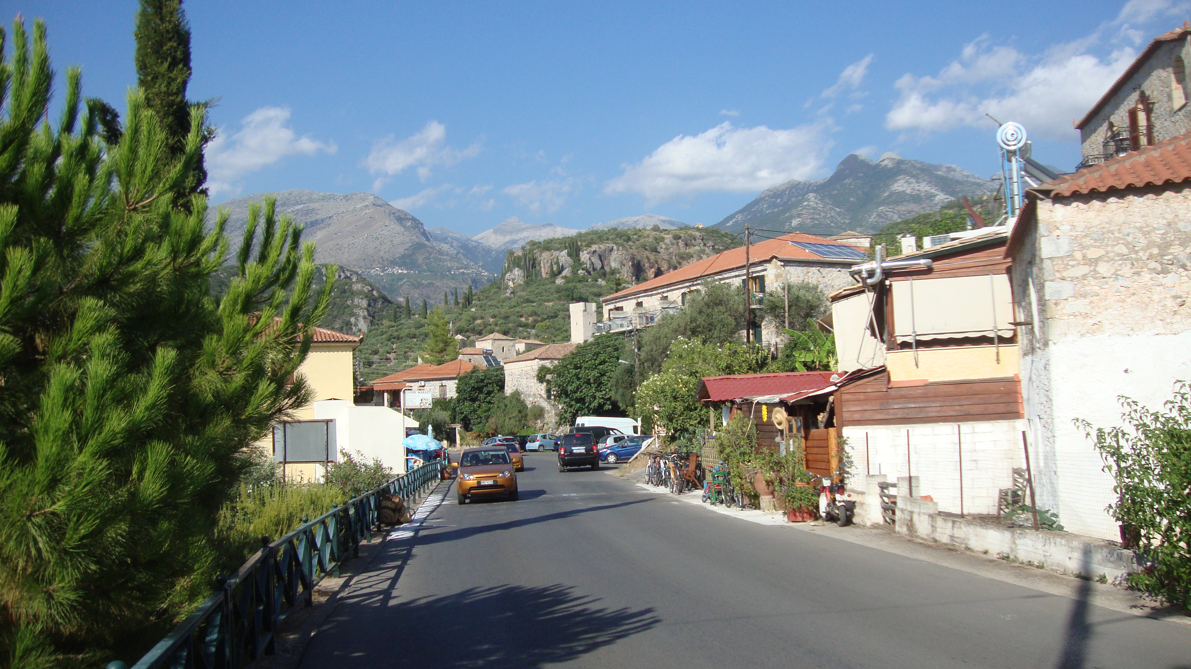 on Kardamili main street